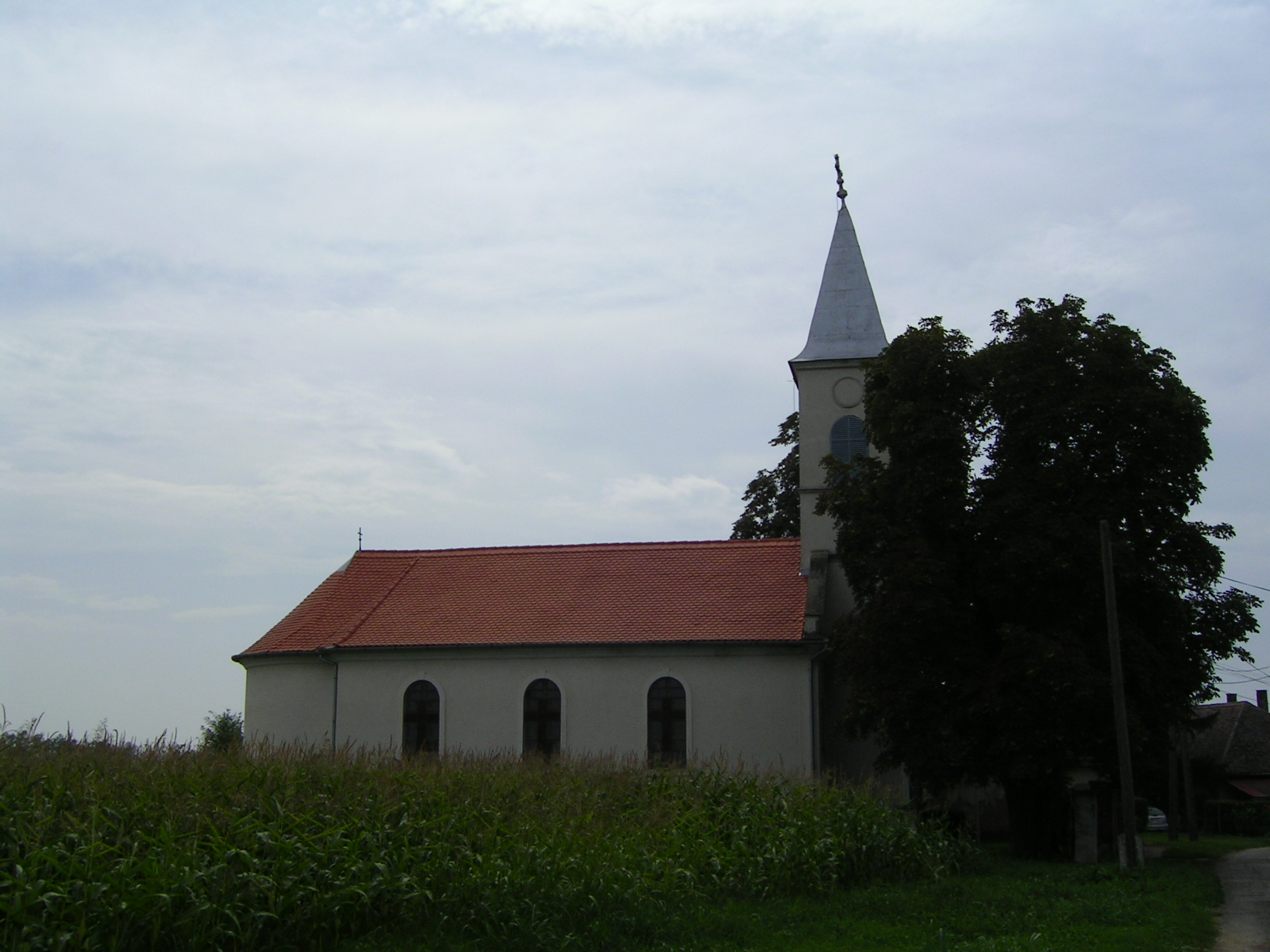 Roman catholic church in Nagybudmér, Hungary